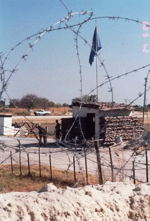 Photograph of the entrance to the Australian base at Ondangwa (occupied by 9th Construction Troop at the time) in Namibia as part of the UNTAG deployment.